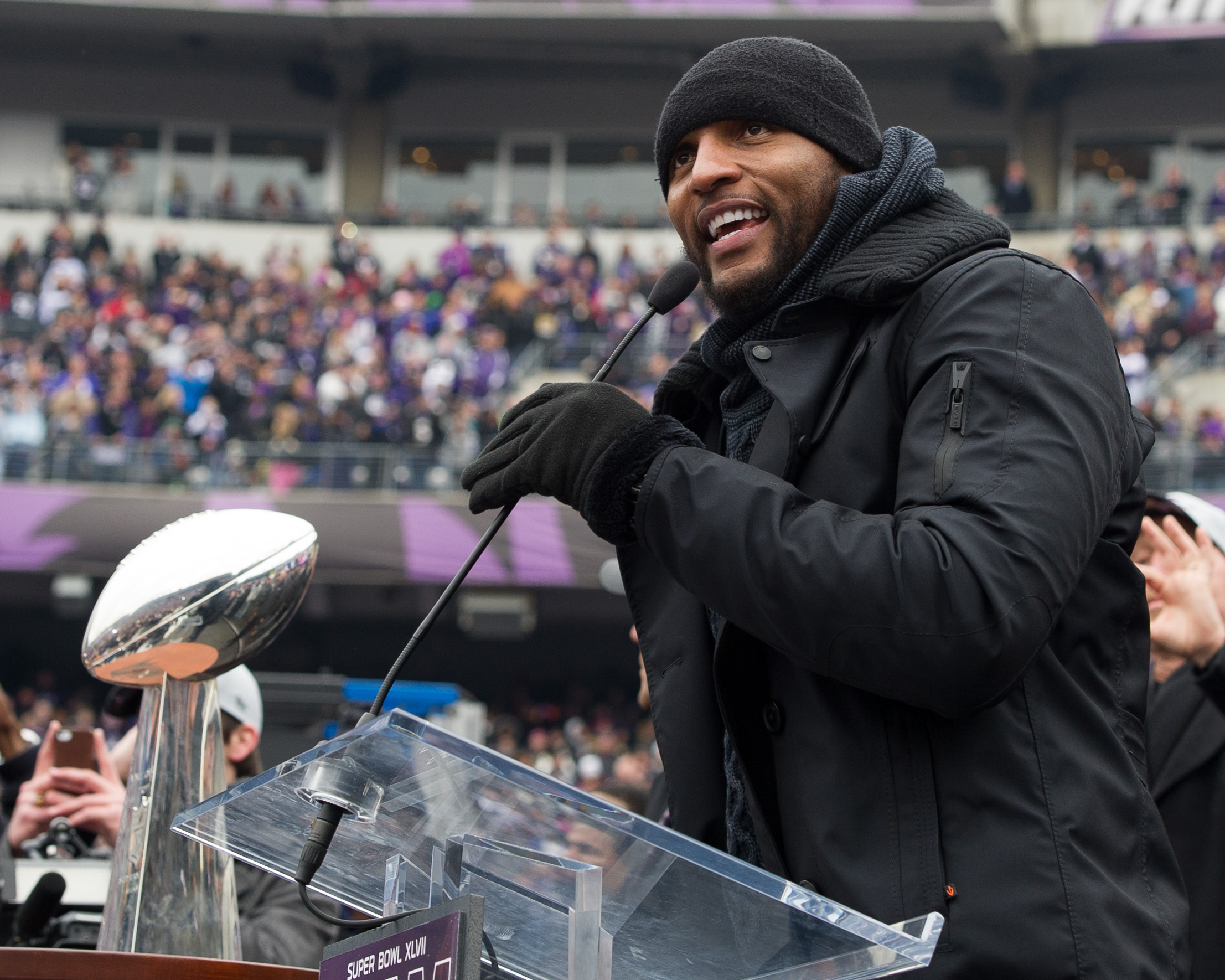 Baltimore Ravens Homecoming Celebration. by Jay Baker at Baltimore, MD.